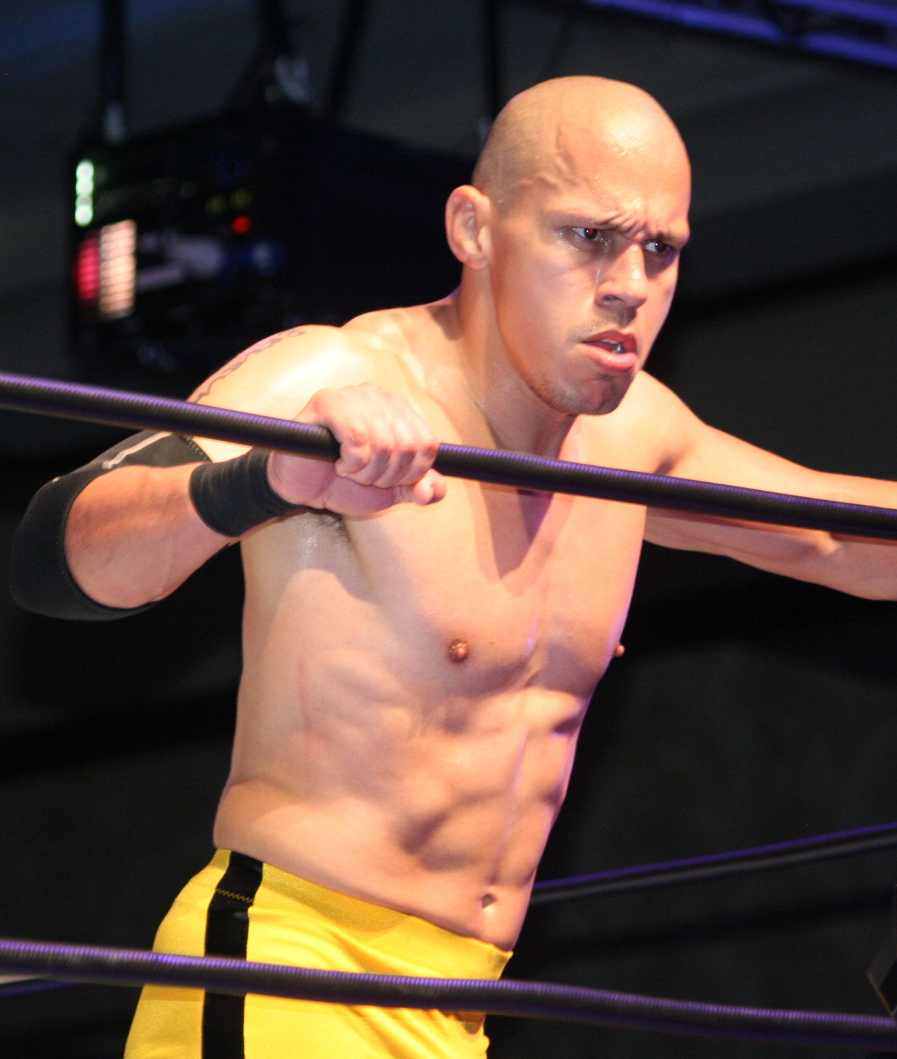 Professional wrestler Low Ki in the ring in March 2016